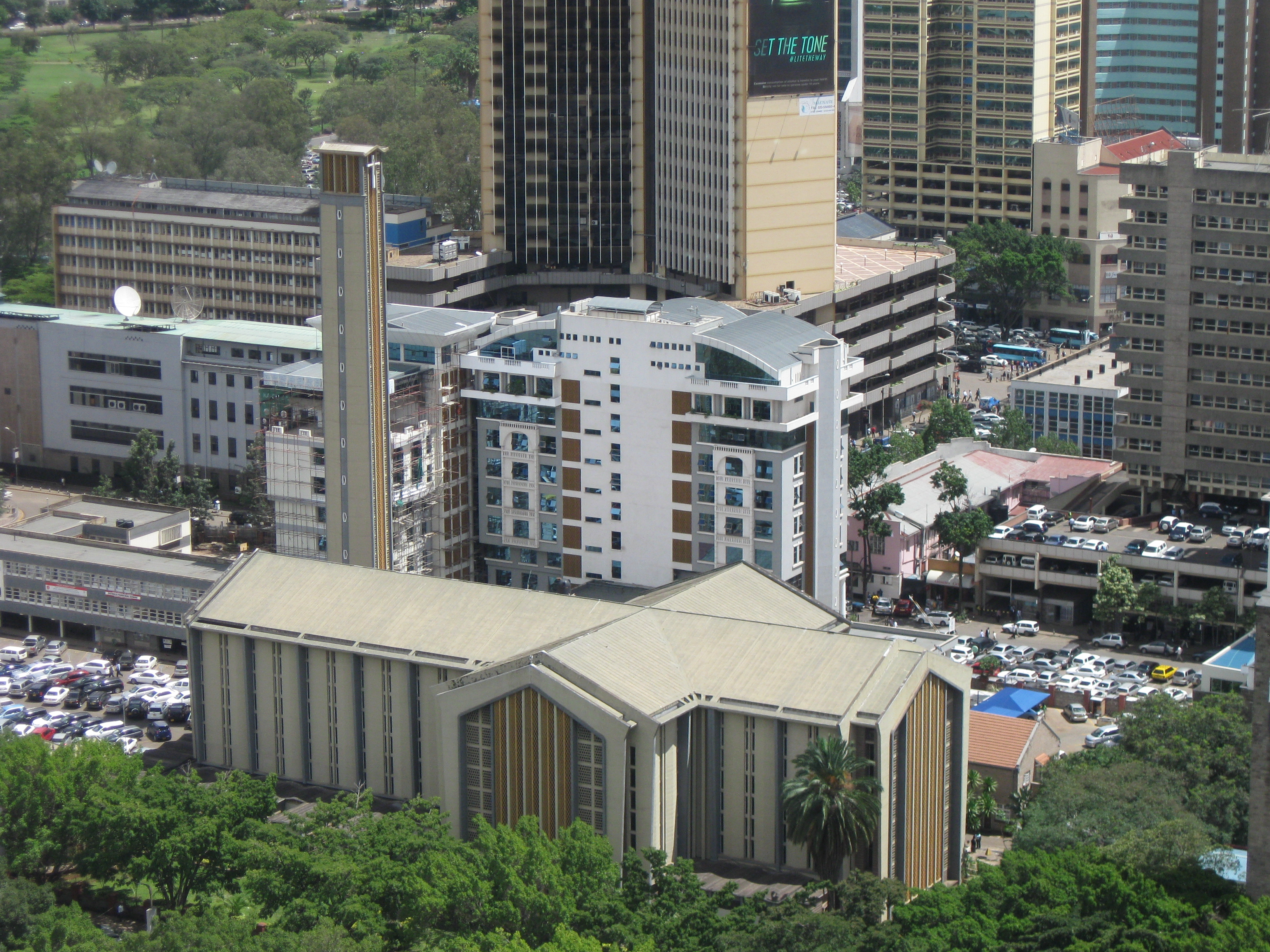 Holy Family Basilica in Nairobi, Kenya